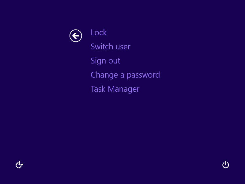 Screenshot of "Window Security" area in Windows 8